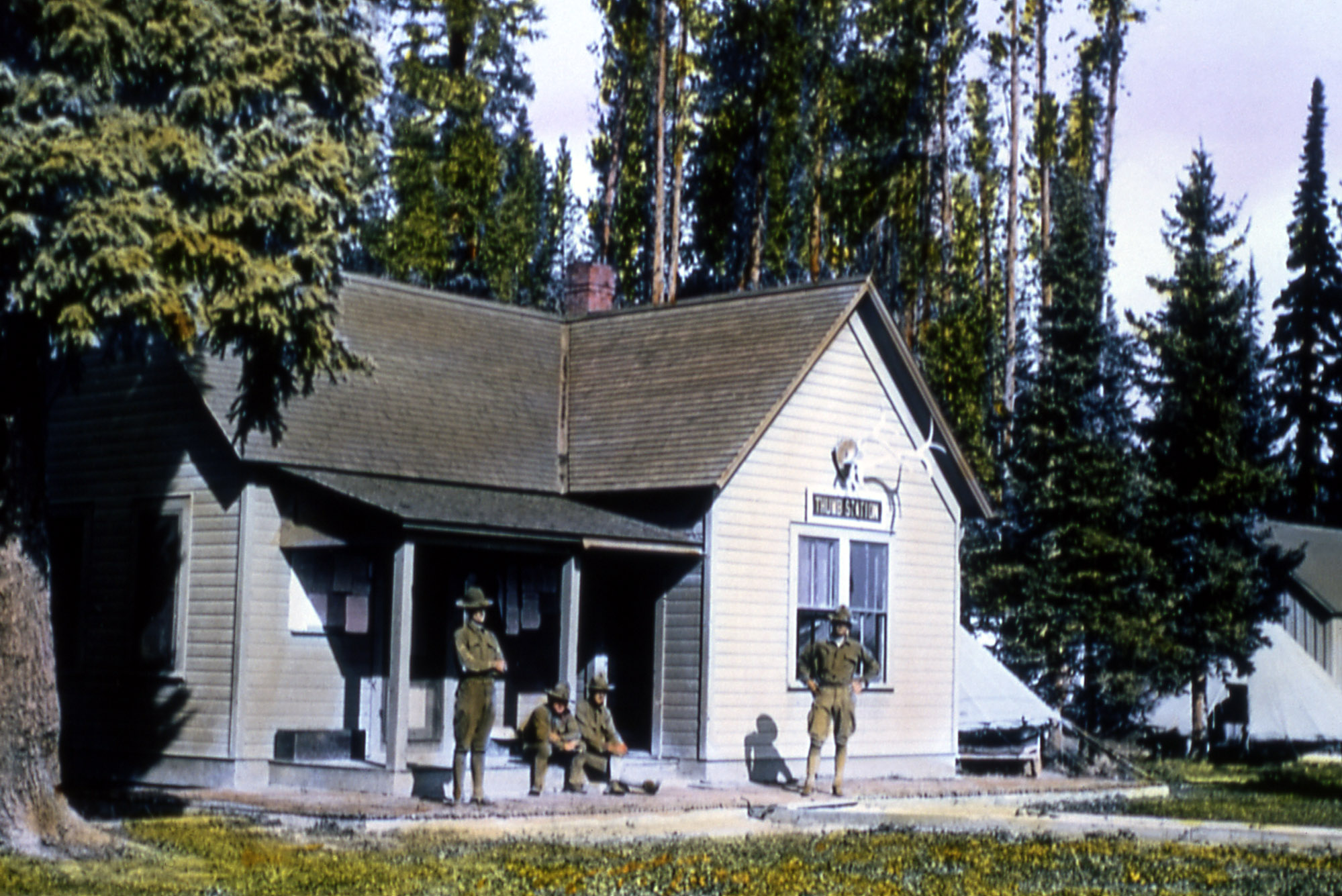 West Thumb Soldier Station, established 1892, built in 1904. Part of Fort Yellowstone, Yellowstone National Park. Photo by F. J. Haynes